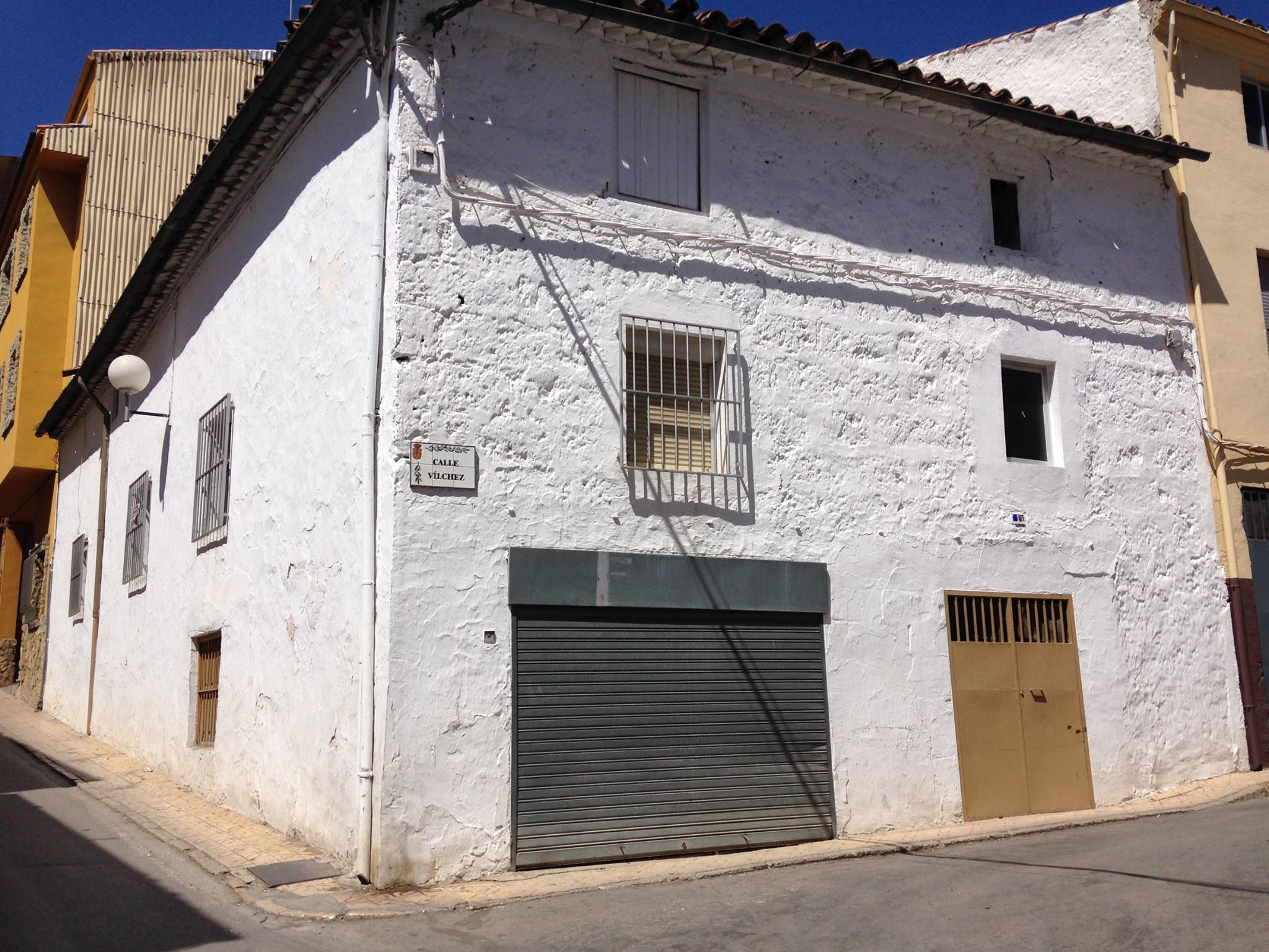 Former House of the Company of Jesus in Valdepeñas de Jaén (17th century)